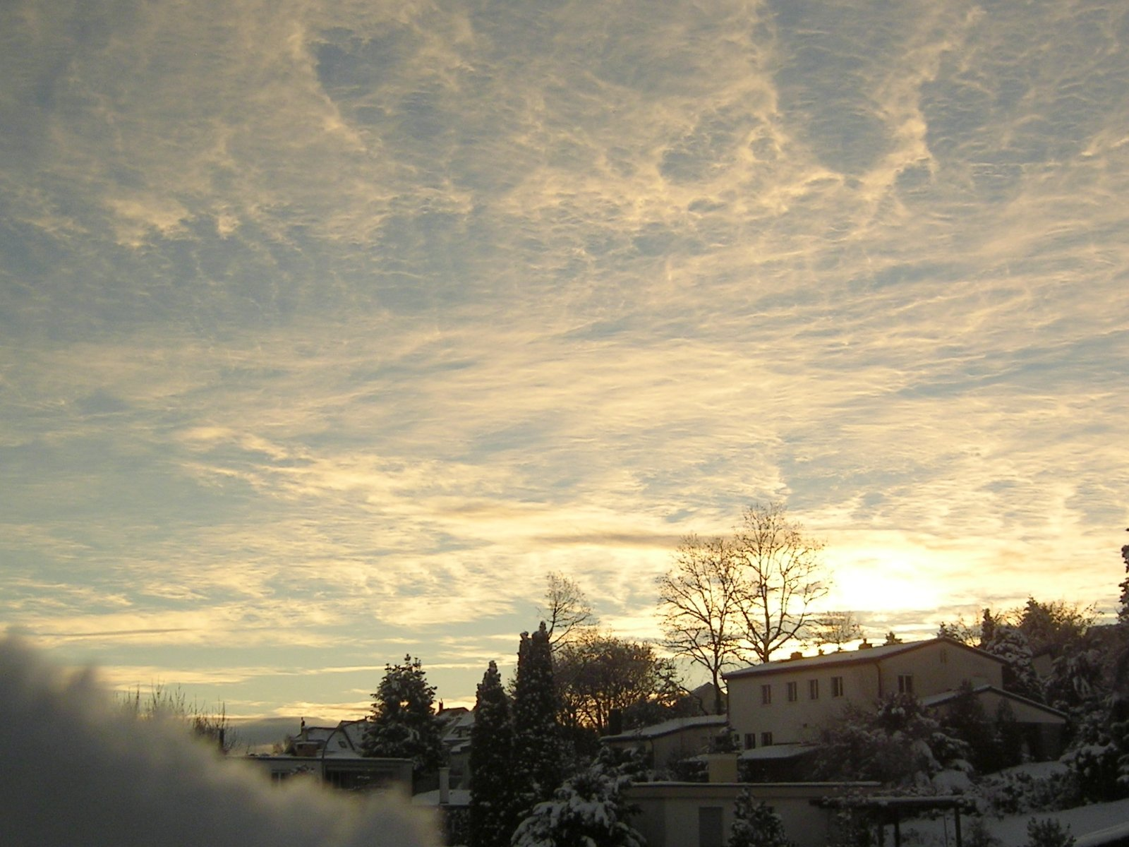 Many Cirrus floccus with small Cirrus spissatus clouds at sun rise